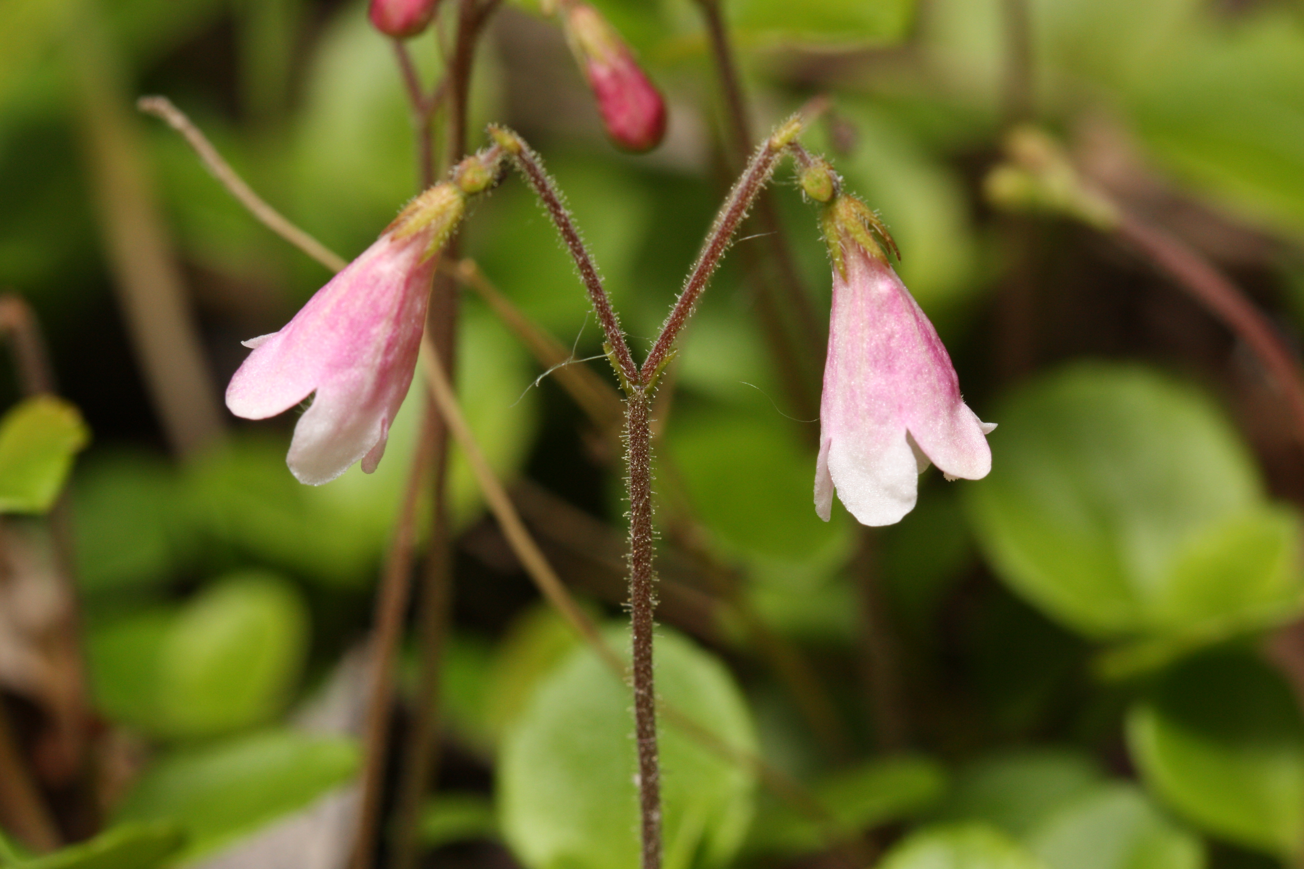 Twin Flower